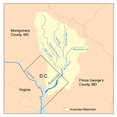 This is a map of the Anacostia River Watershed I made using USGS and Census Bureau data.